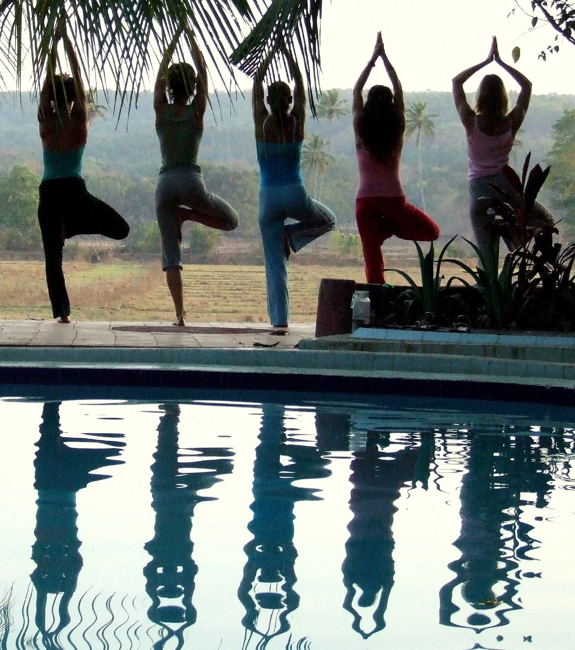 Vrksasana, the tree position, a Yoga posture.